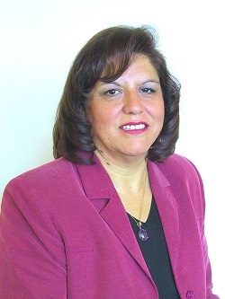 Official photograph of María Eugenia Mella Gajardo as deputy of the Republic in 2002